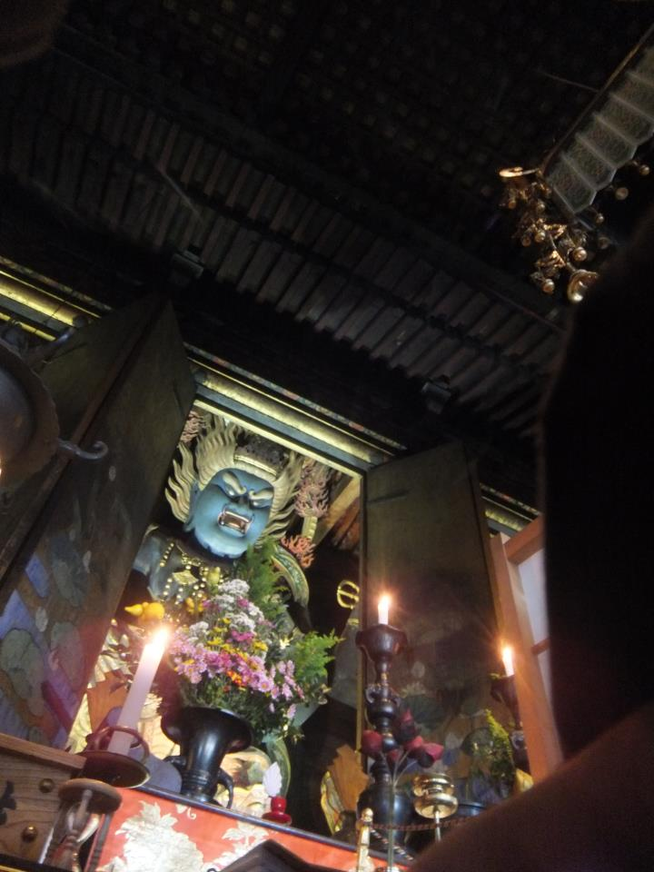 Zao-Gongen Statue, Kimpusen Temple (Kimpusen-ji), Yoshino, Nara Prefecture, Japan